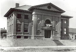 Ballard Carnegie Library (Henderson Ryan, 1904), 1911. Via The Seattle Public Library Foundation.